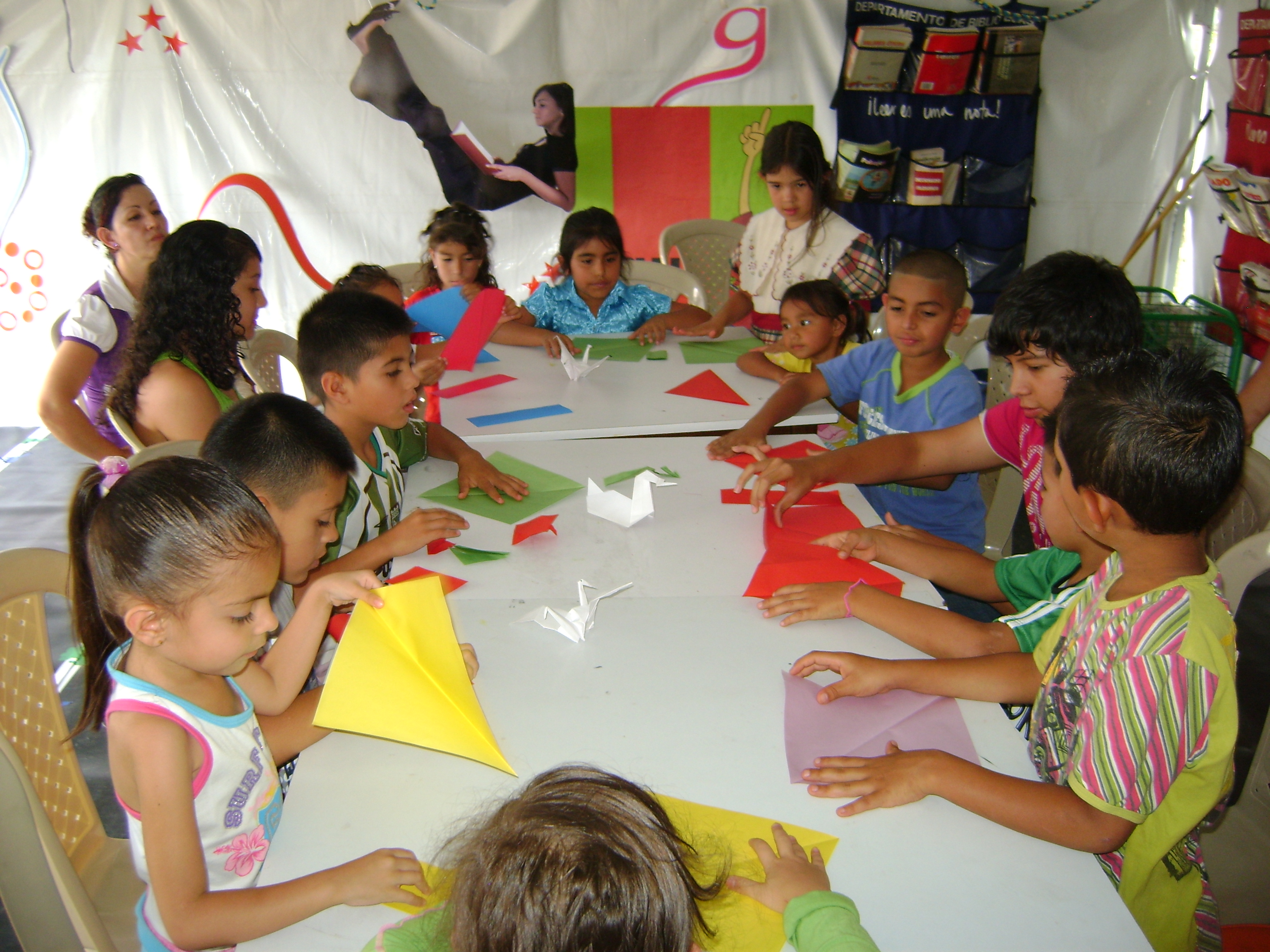 En su sede externa, La Bibliocarpa.